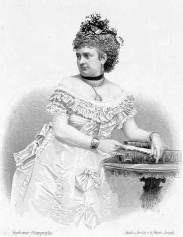 German opera singer Josephine Schefsky (1843-1912) by August Weger (1823-1892).